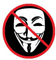 a logo of opposition to the policies of the hacker group "Anonymous"